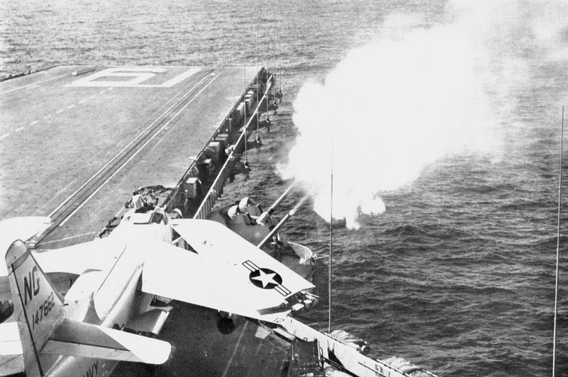 Photo of the practice firing of the starboard forward 5"/54 caliber Mark 42 guns aboard the U.S. Navy aircraft carrier USS Ranger (CVA-61). A Douglas A3D-2 Skywarrior (BuNo 147662) from Heavy Attack Squadron VAH-6 Fleurs is visible in the foreground. VAH-6 was assigned to Carrier Air Group 9 (CVG-9) aboard the aircraft carrier USS Ranger (CVA-61) for a deployment to the Western Pacific from 11 August 1961 to 8 March 1962. The A3D-2 147662 was lost during a flight from USS Ranger in November 1962.